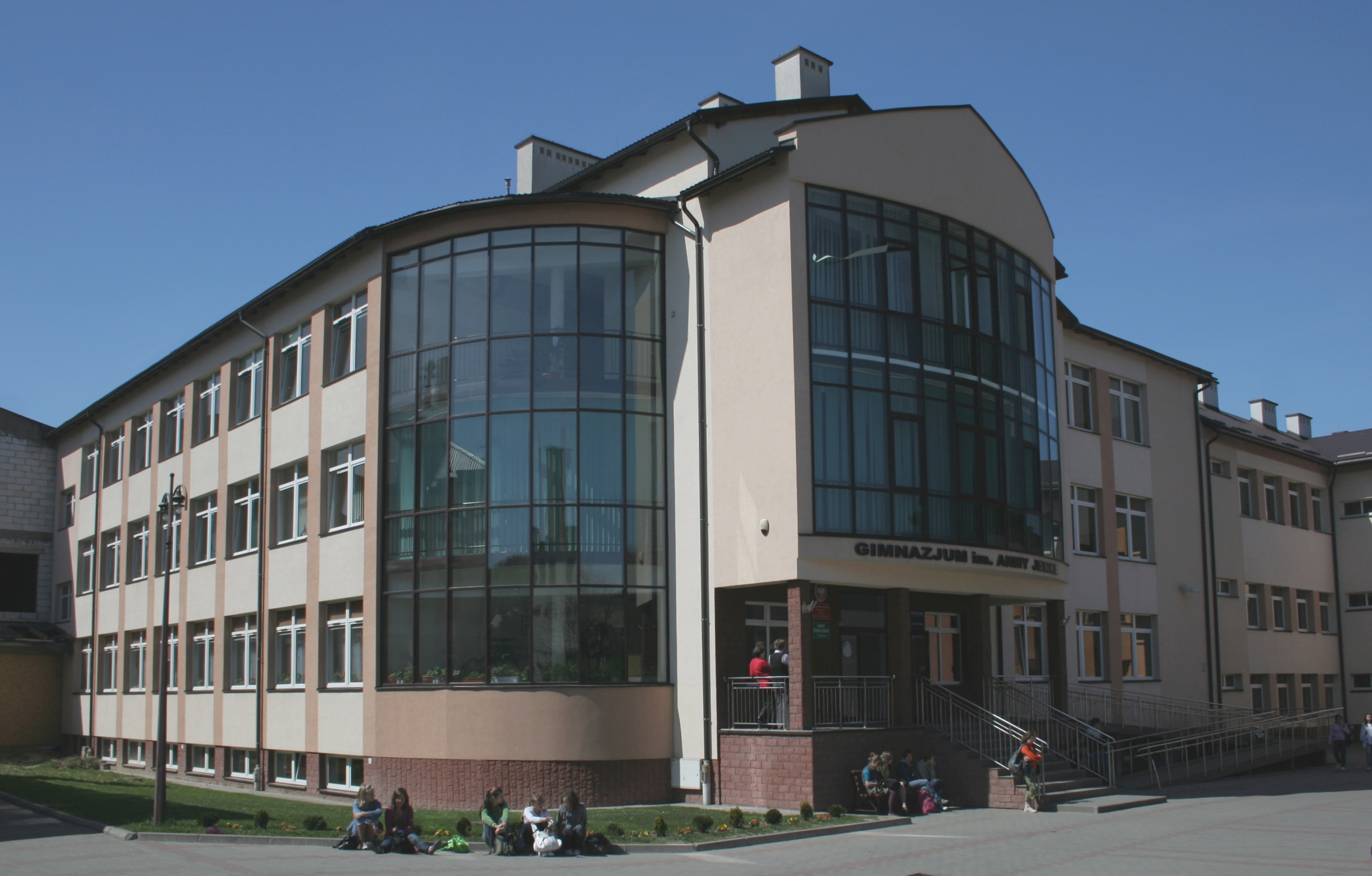 The school in Błażowa, Poland.